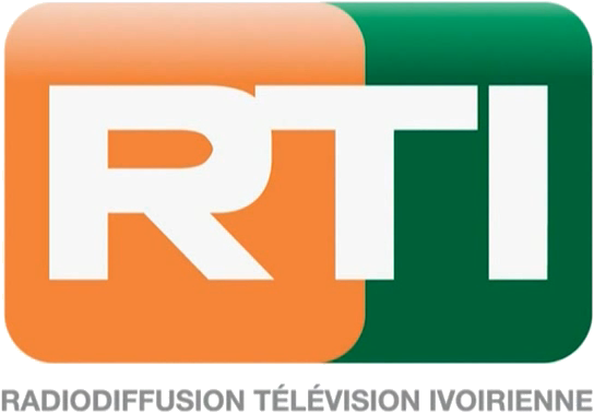 Logo of Radiodiffusion télévision ivoirienne